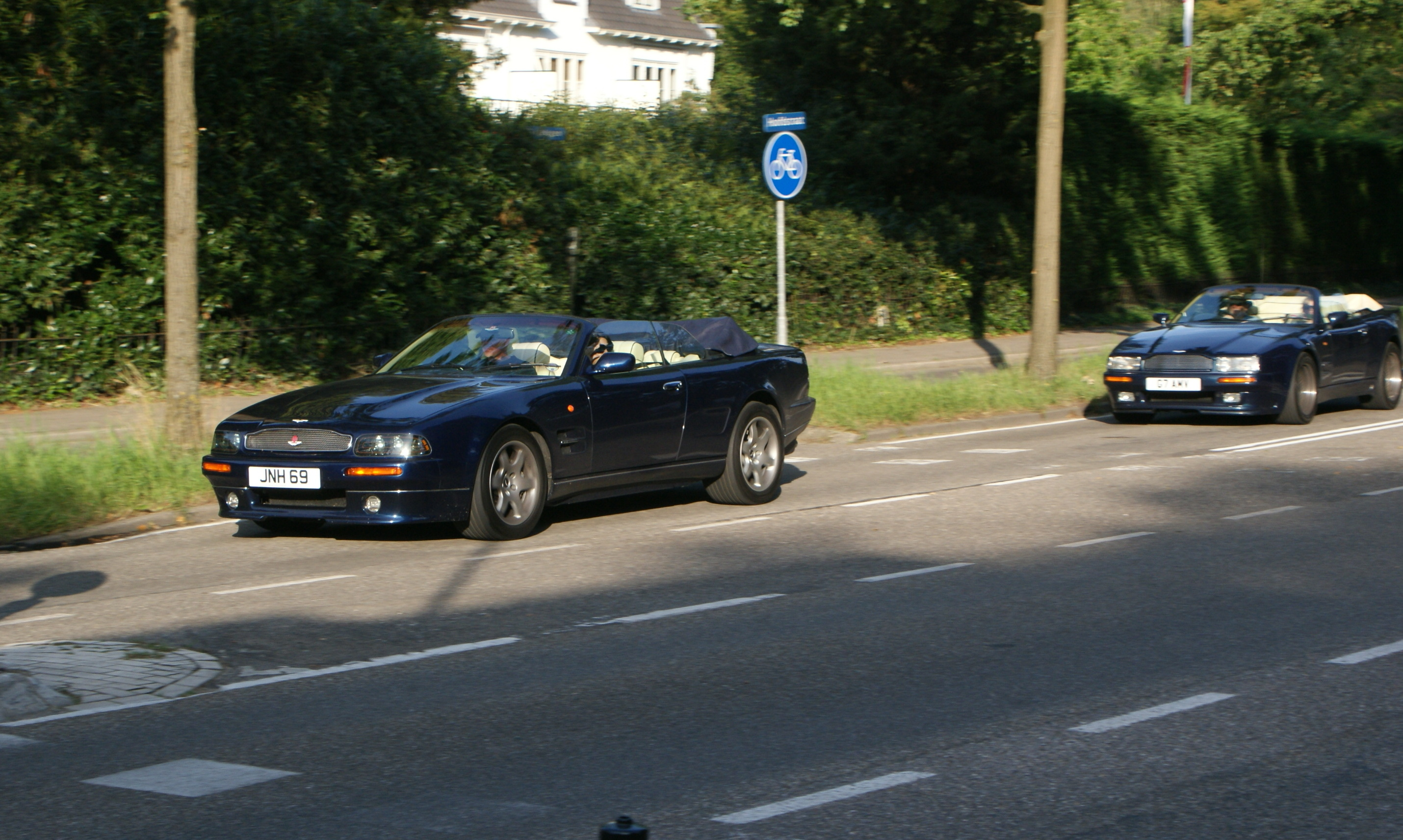 JNH 69 (GB) | G7 AMV (GB) Only 63 & 233 made!